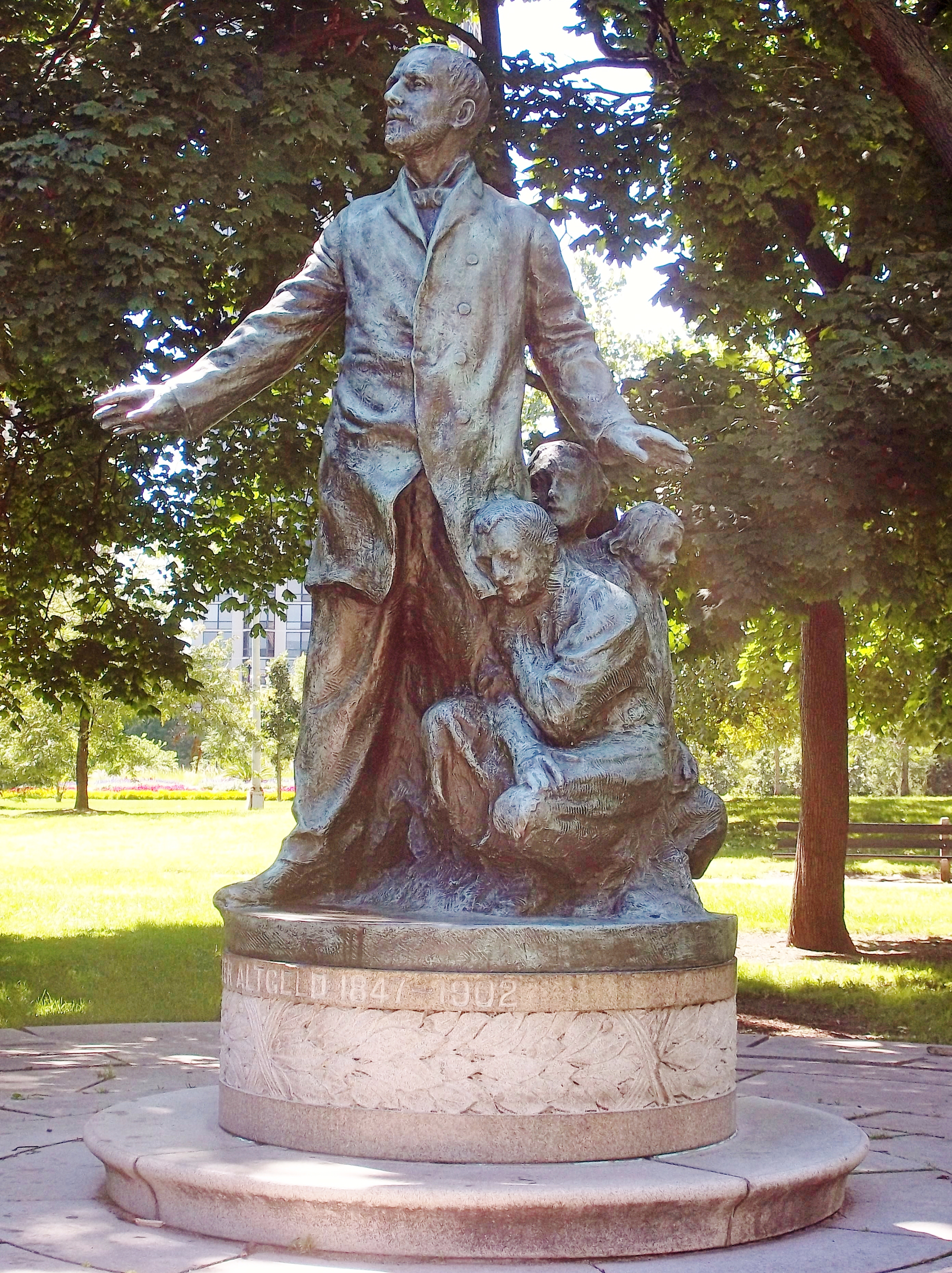 Statue of John Peter Altgeld (1847-1902) by Gutzon Borglum in Lincoln Park, Chicago, installed 1915